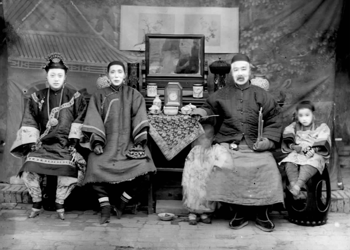 Guo Liren's Family. Photo shot in 1906. Guo Liren lived in Huairen County, Shanxi, China.